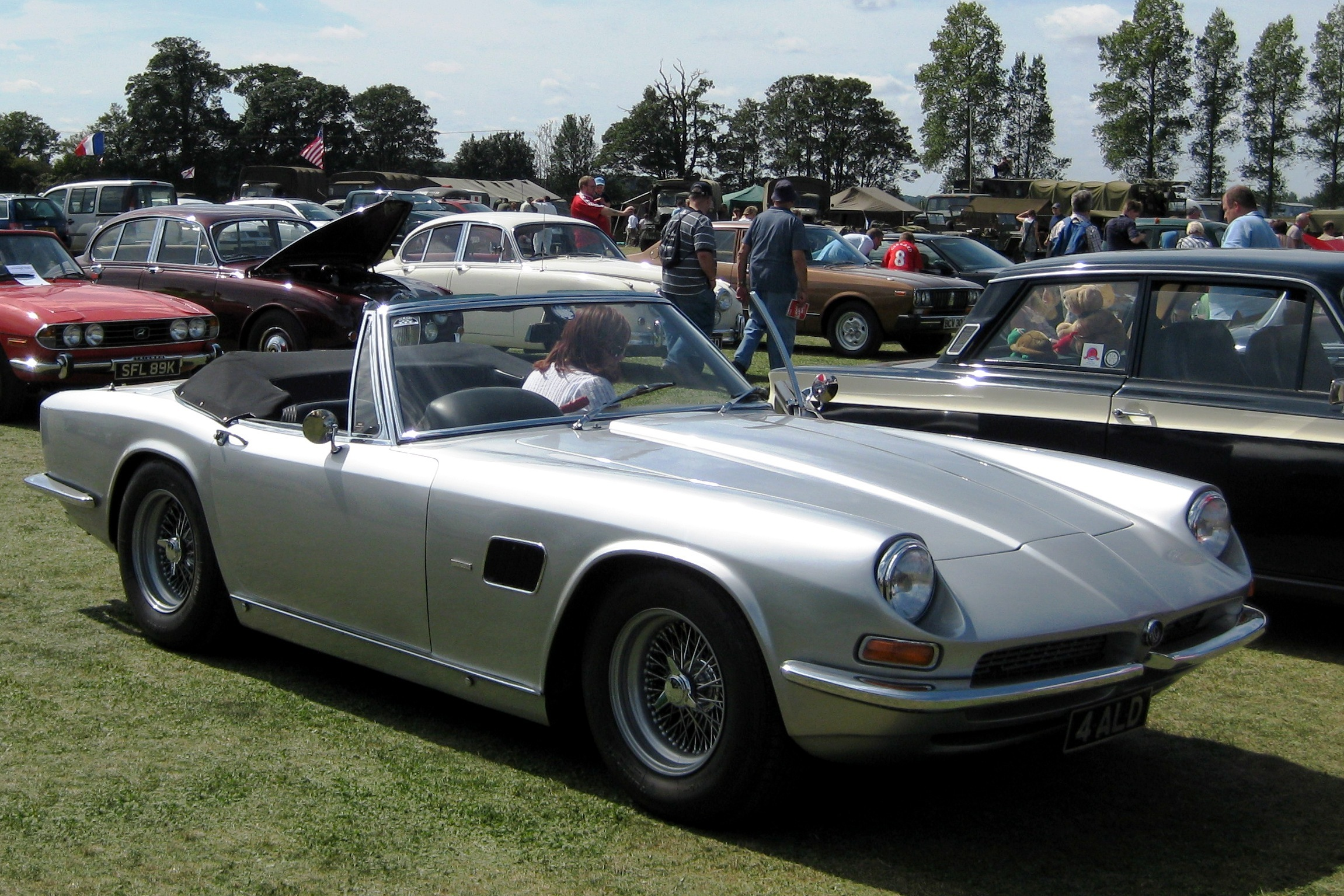 AC 428 "Frua" bodied cabriolet